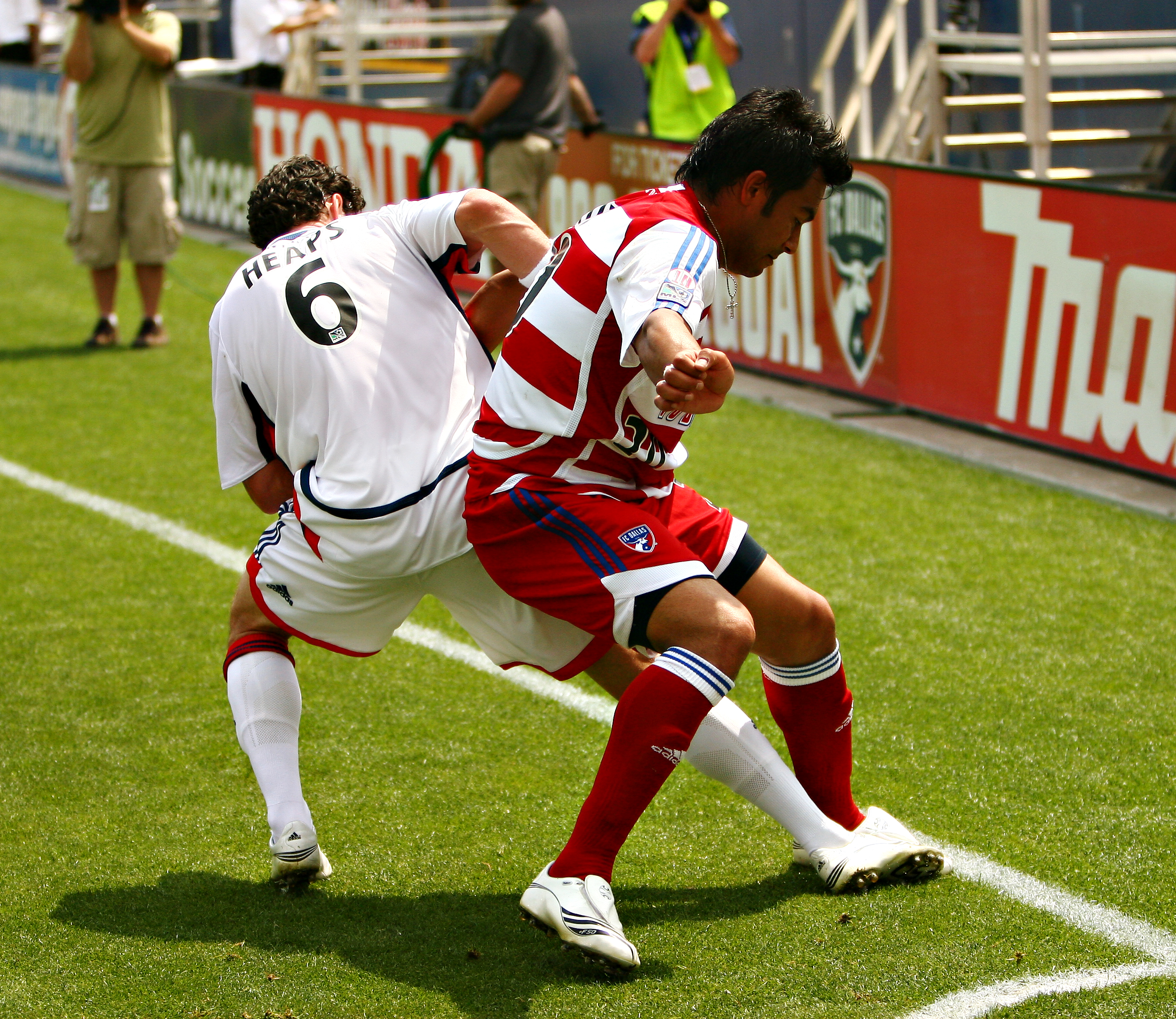 Jay Heaps of New England Revolution and Carlos Ruiz of FC Dallas jostle for the ball which is nowhere to be seen.